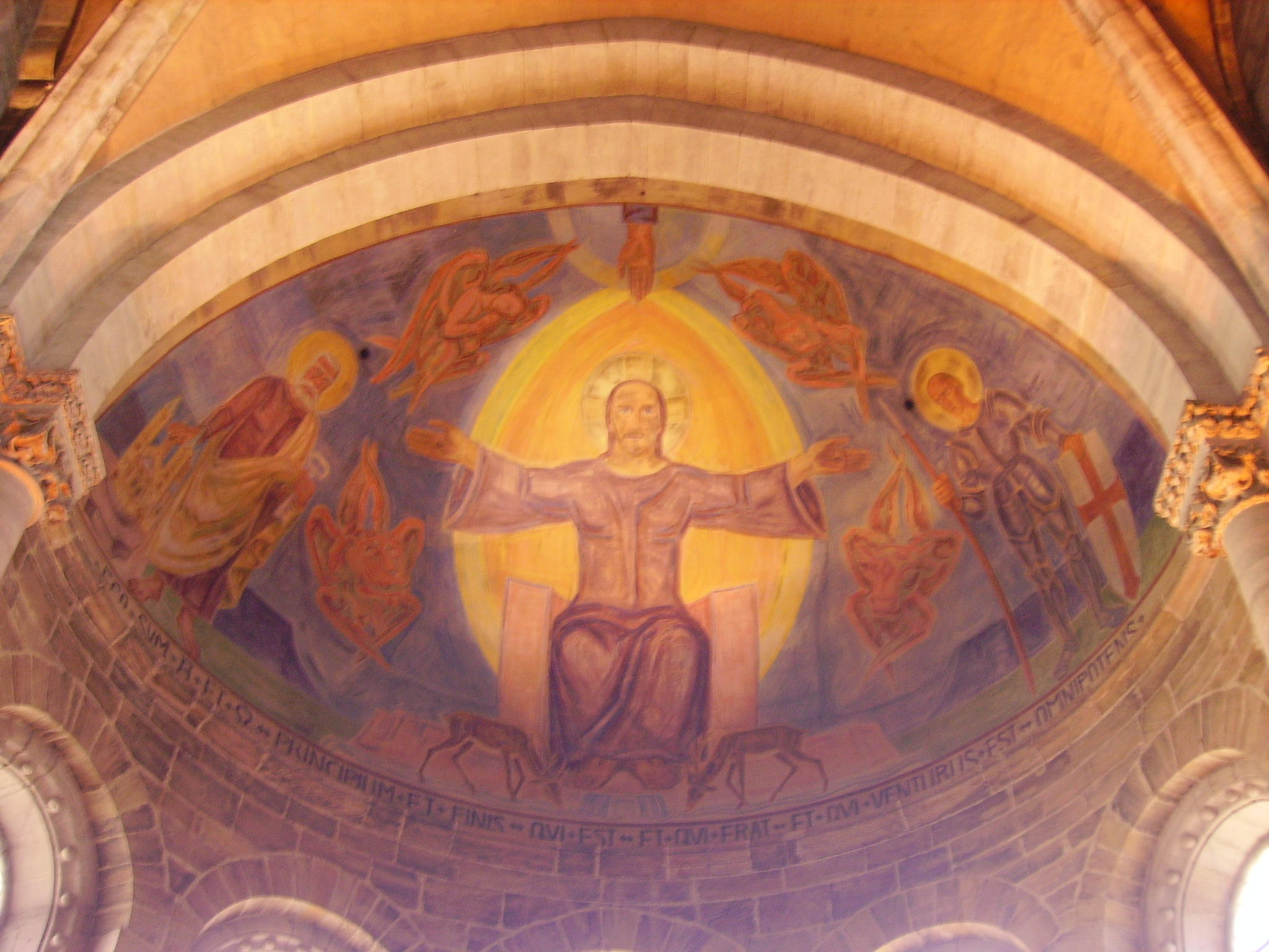 Choir fresco of the Imperial Cathedral Sts. Peter, Paul & George, Bamberg